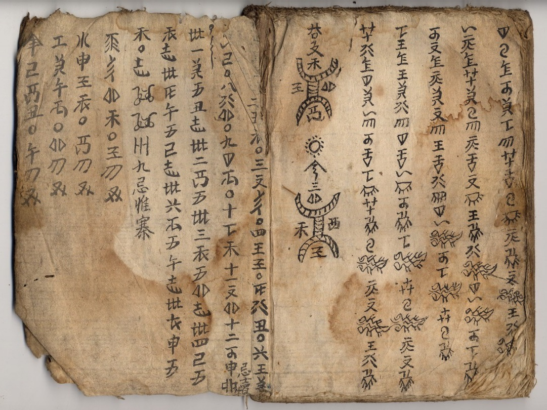 19th-century Shuishu manuscript from the Shui archives in Libo, Guizhou titled in Chinese Sàngzàng zérì shū 喪葬擇日書. Digitized by the Endangered Archives Programme. EAP143/1/1/3